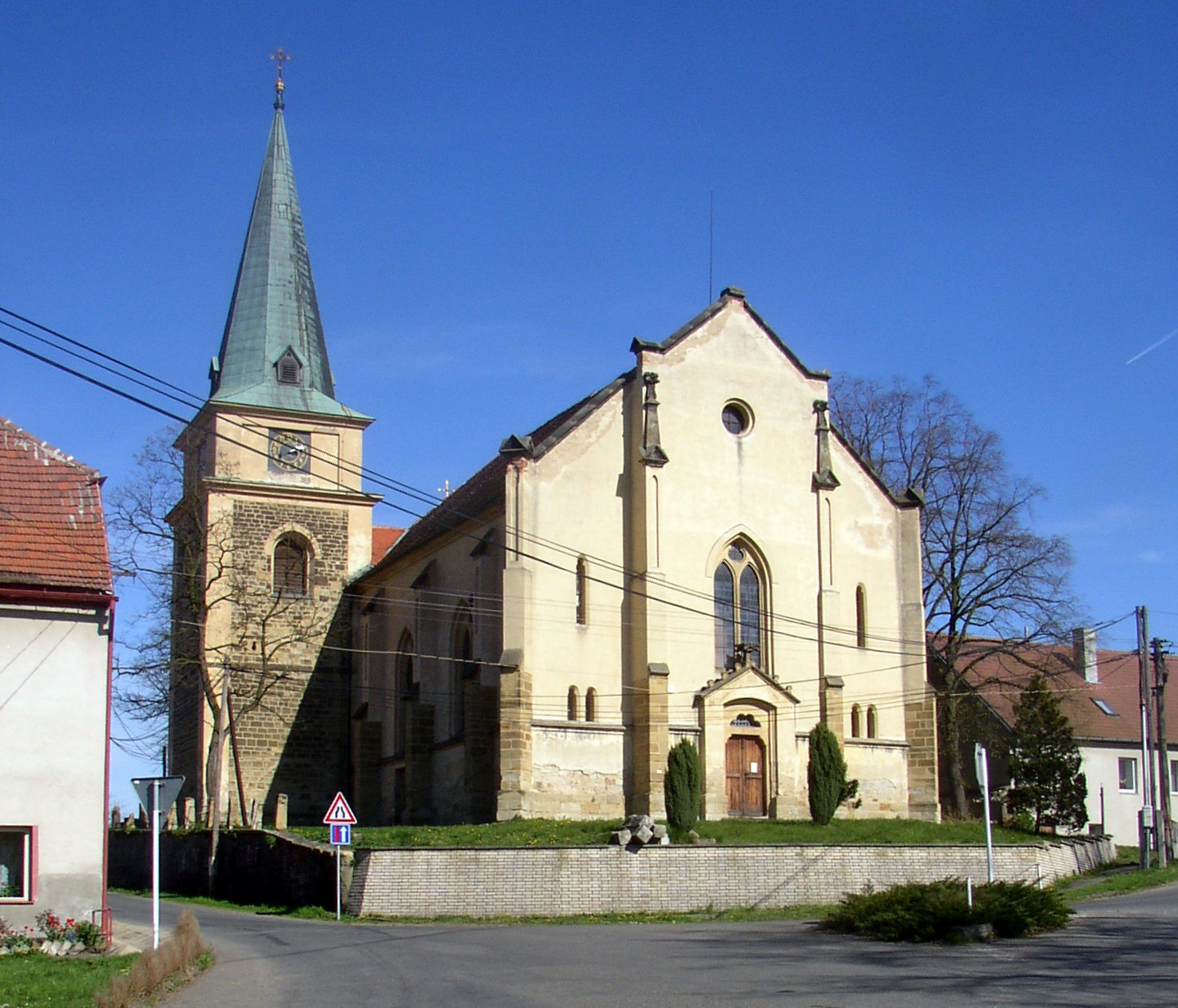 Church of St James the Great in Srbeč, Rakovník District, Czech Republic.